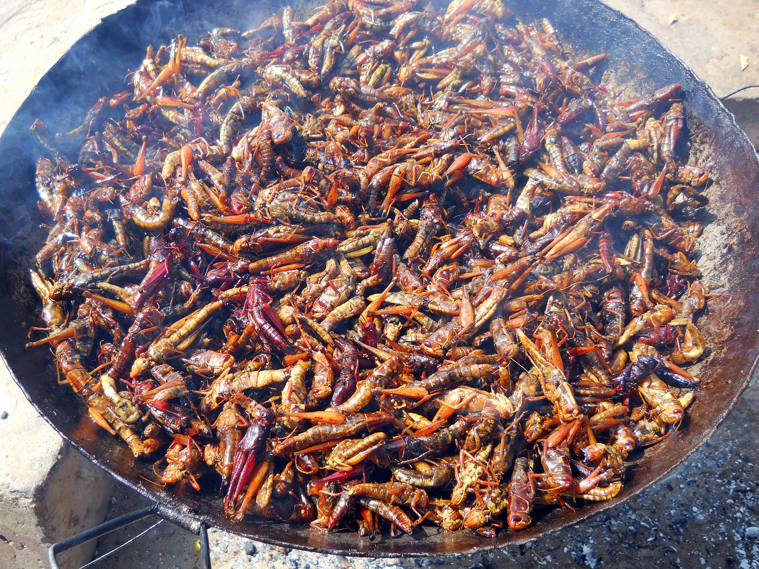 Fried Grasshoppers This is an image of food from Chad